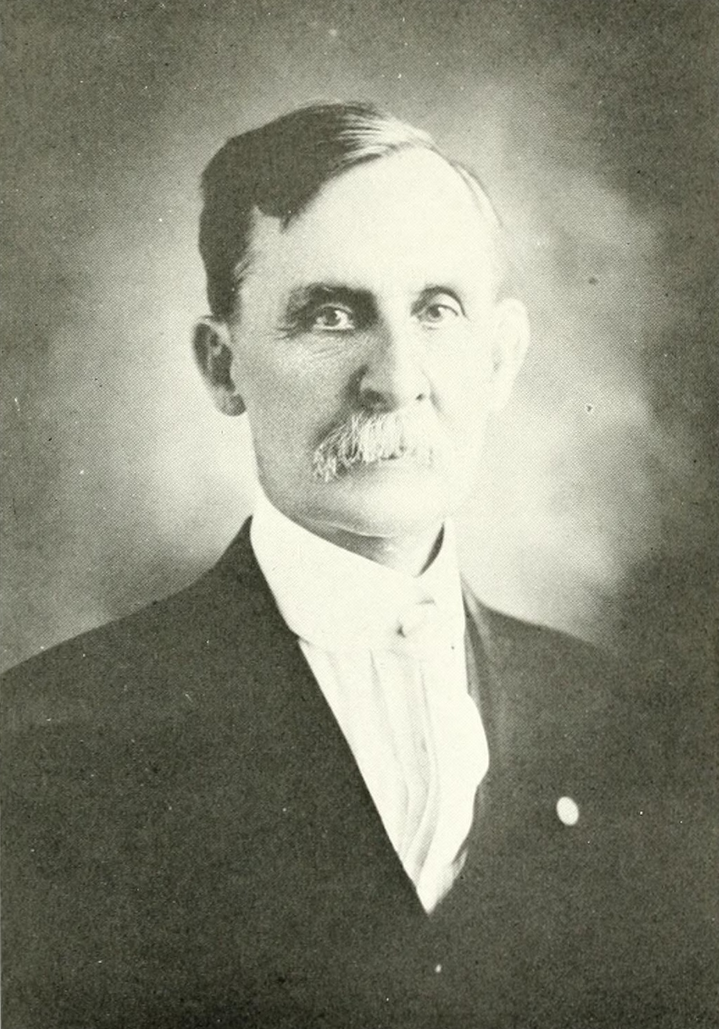 John L. Jolley, Congressman from South Dakota